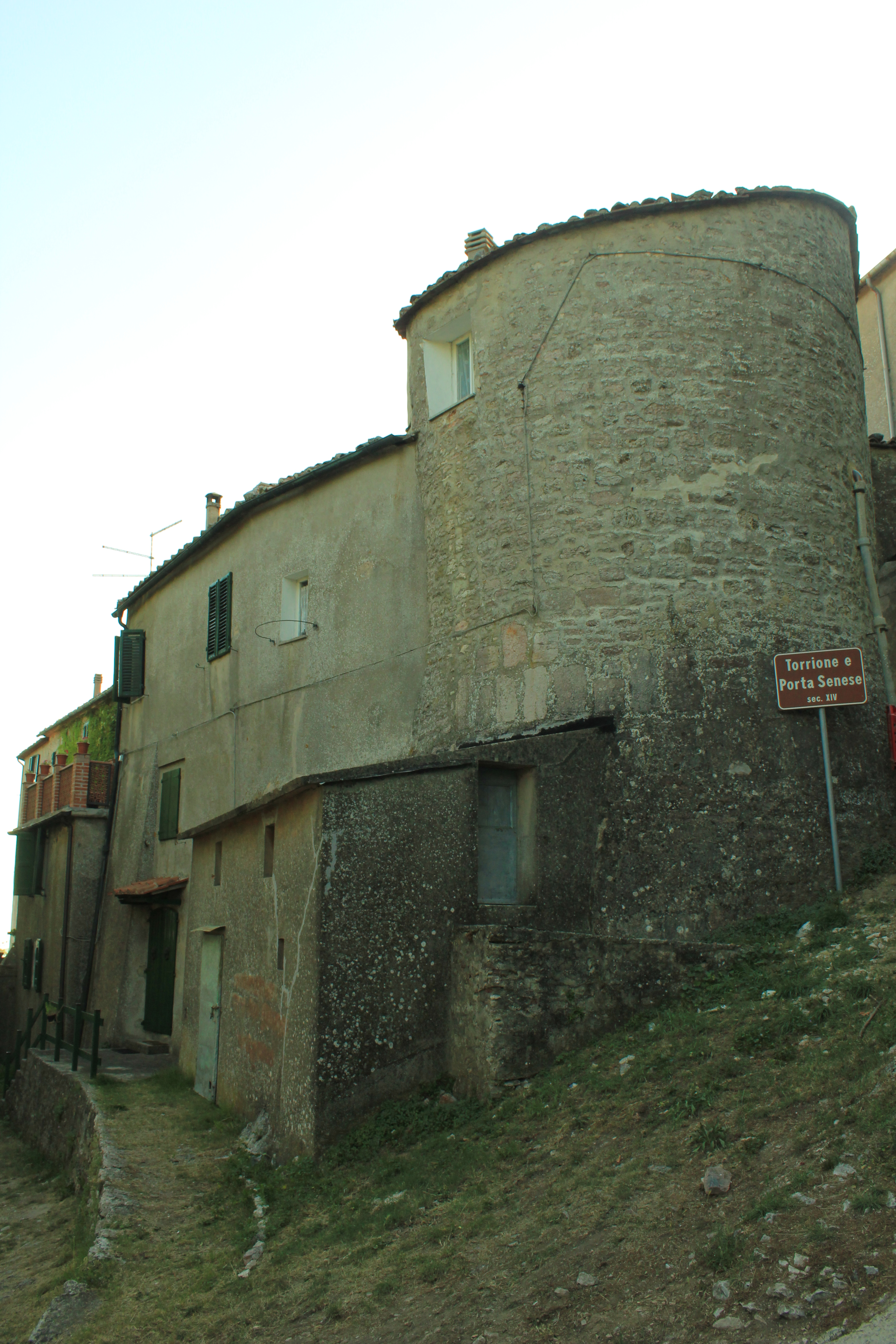 Tower of Porta Senese in Gerfalco, Grosseto, Italy.